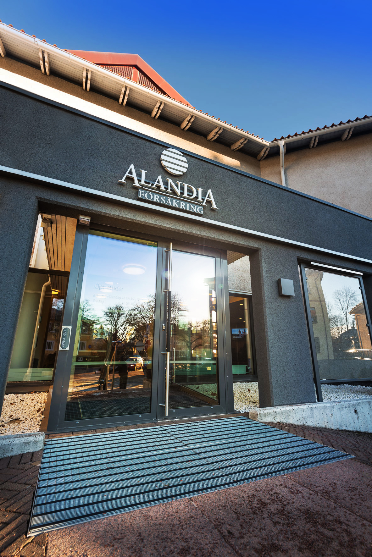 Entré till Alandia försäkring, Ålandsvägen 31, Mariehamn, Åland